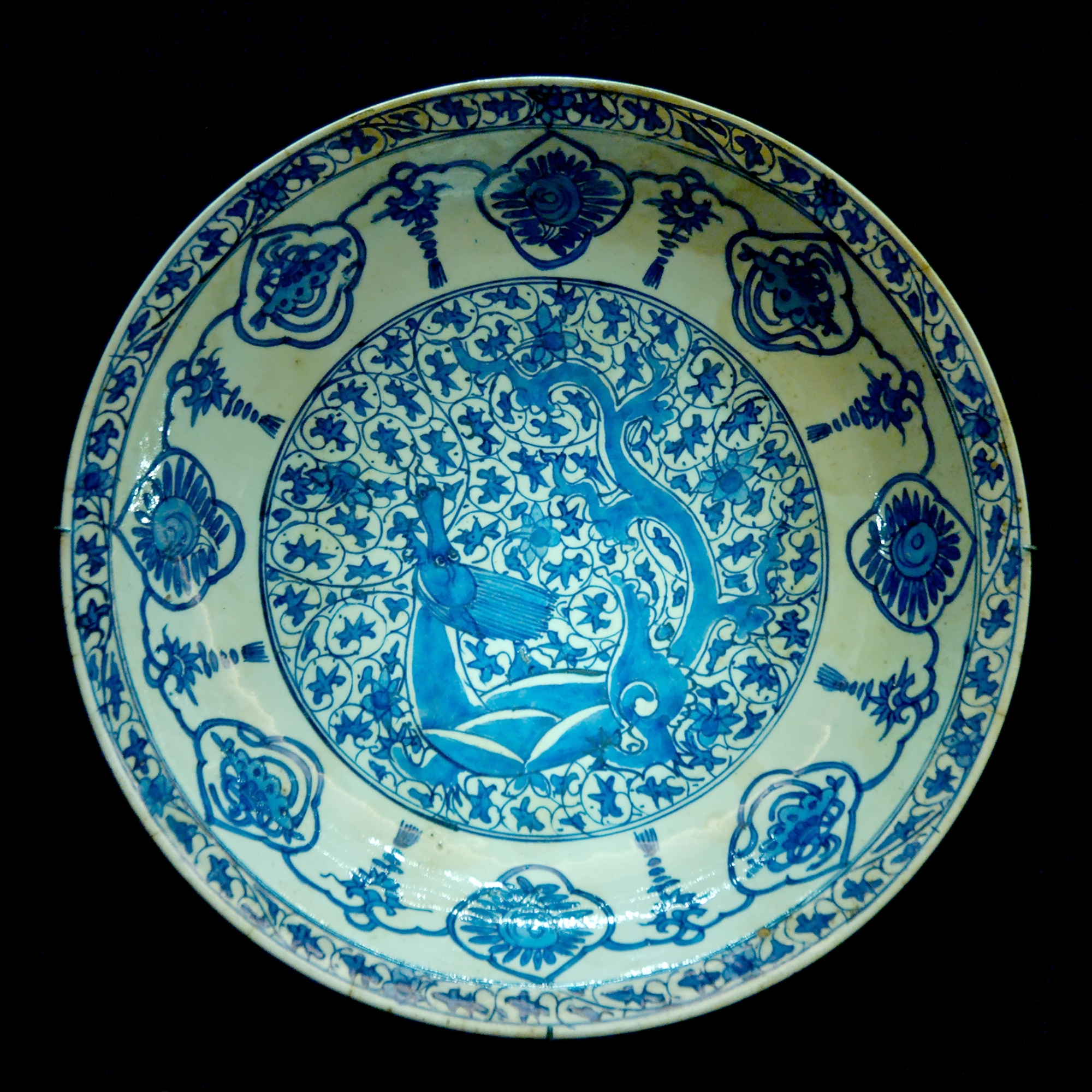 Plate with dragon, Iranian artwork inspired from 15th century Chinese blue and white ceramic.